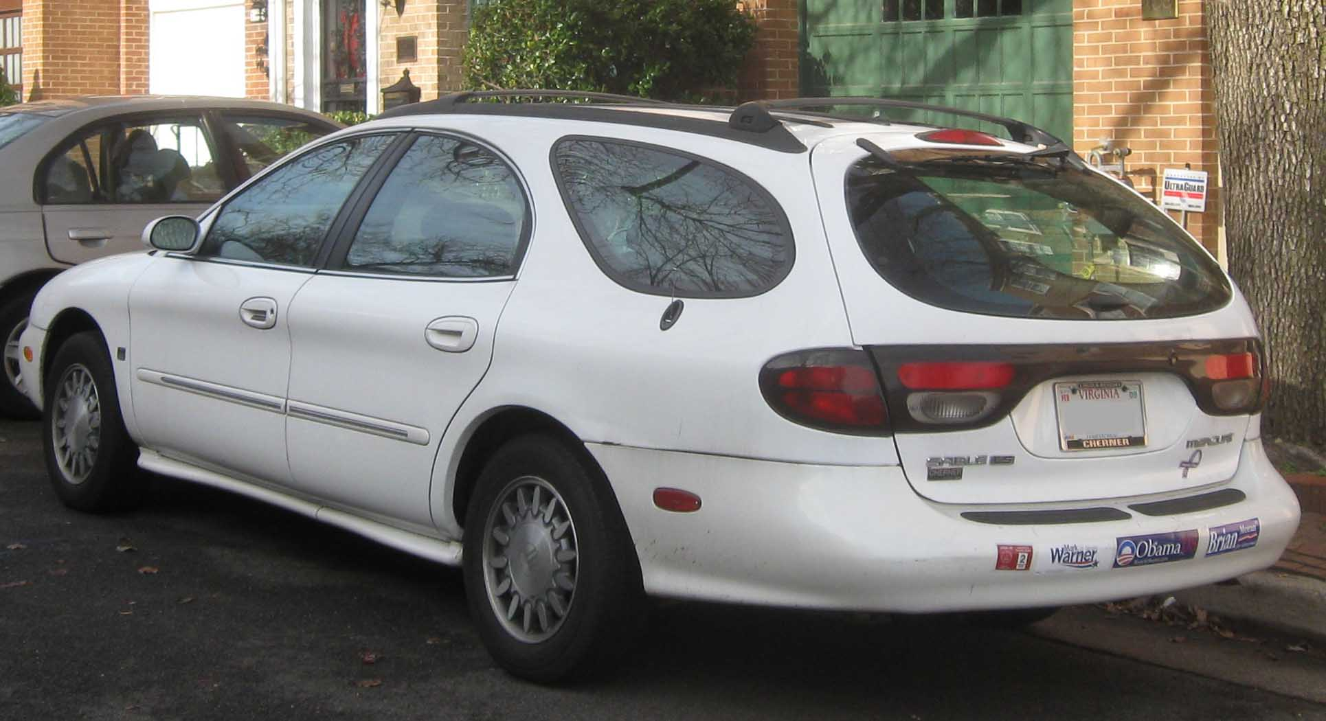 Mercury Sable photographed in Alexandria, Virginia, USA.